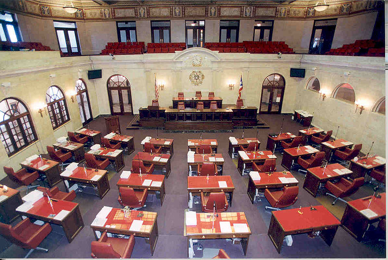 Hemicycle of the Senate of Puerto Rico